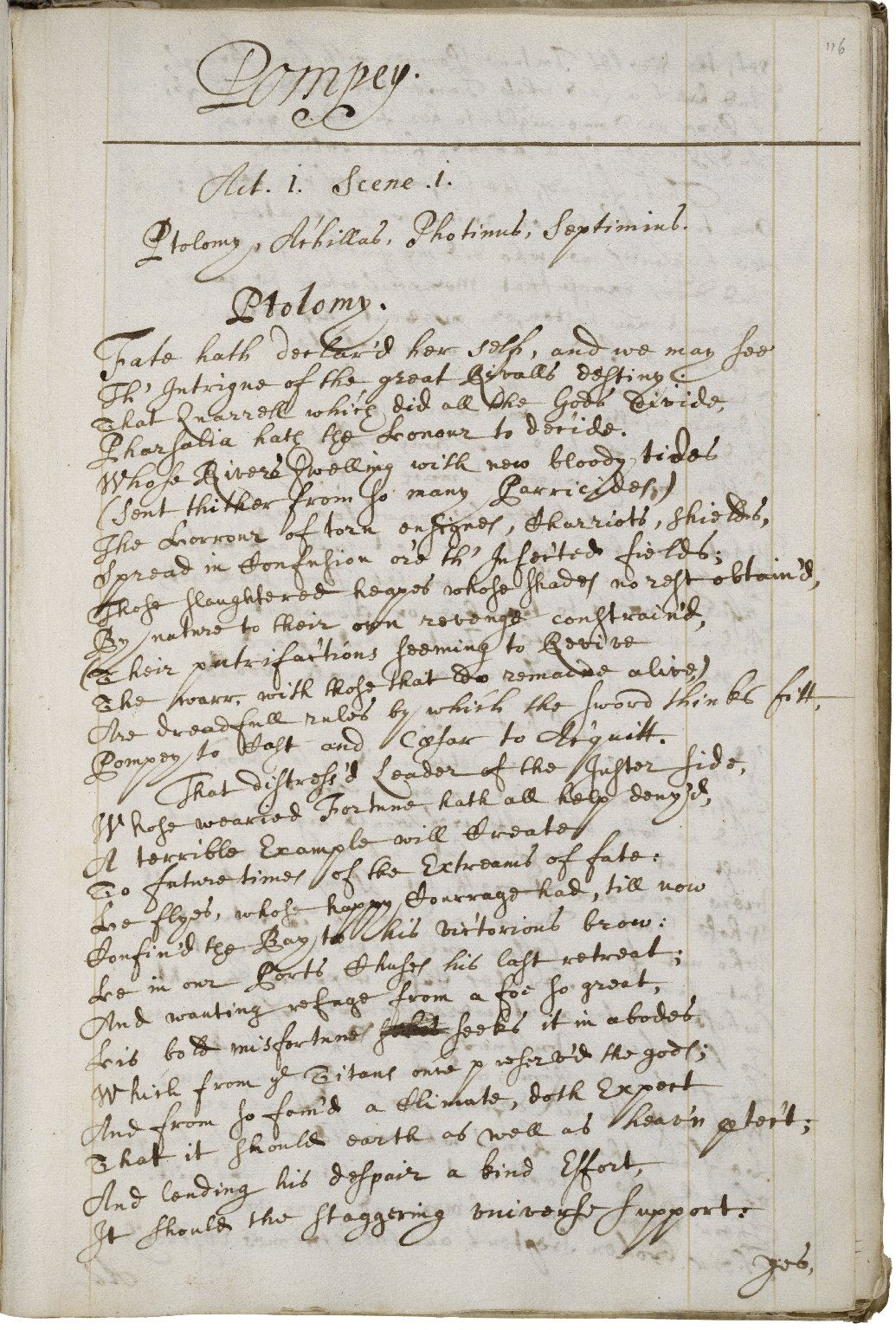 A manuscript copy of Katherine Philips' poetry, c. 1670.